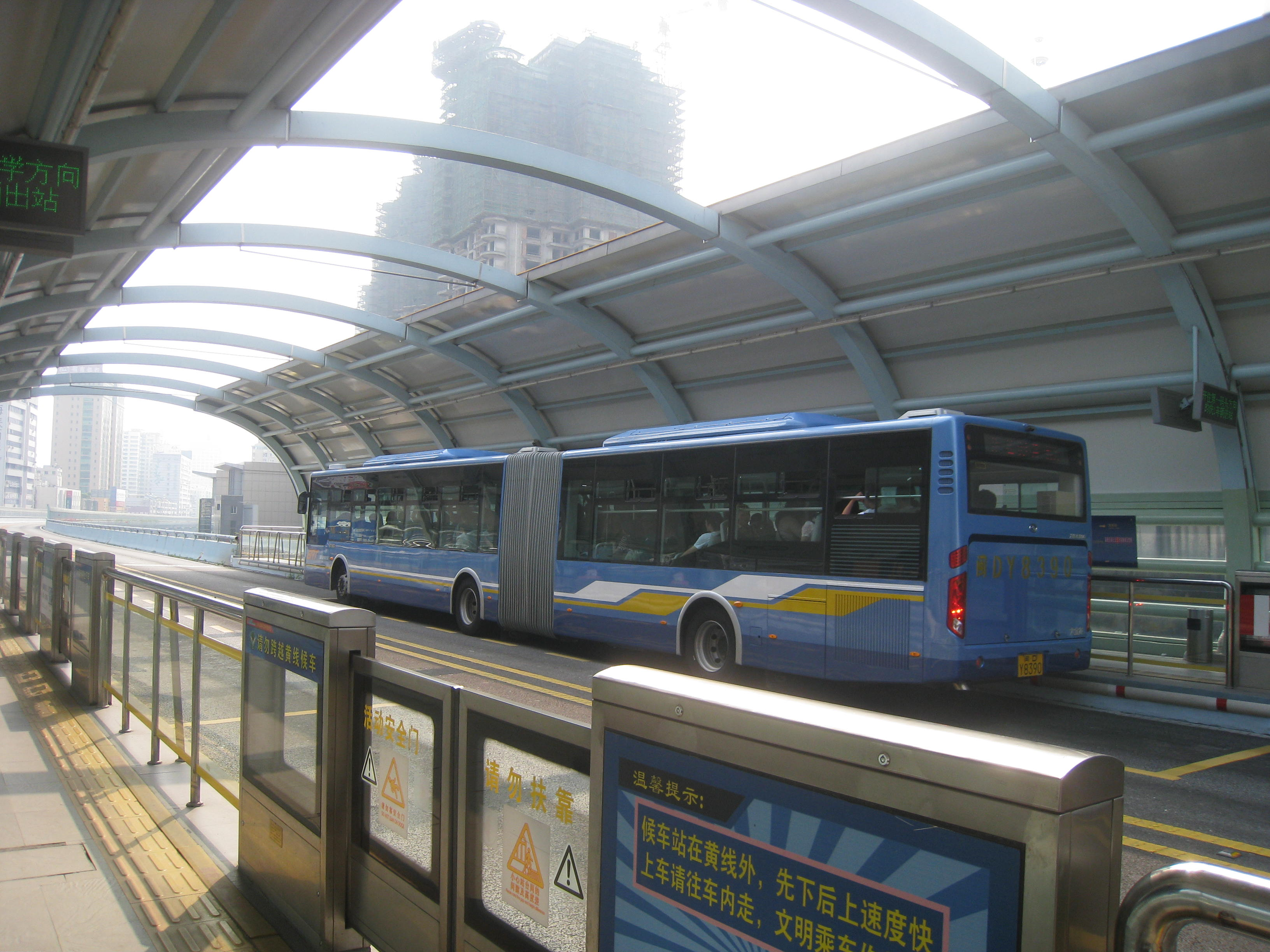 Xiamen BRT 18m Bus